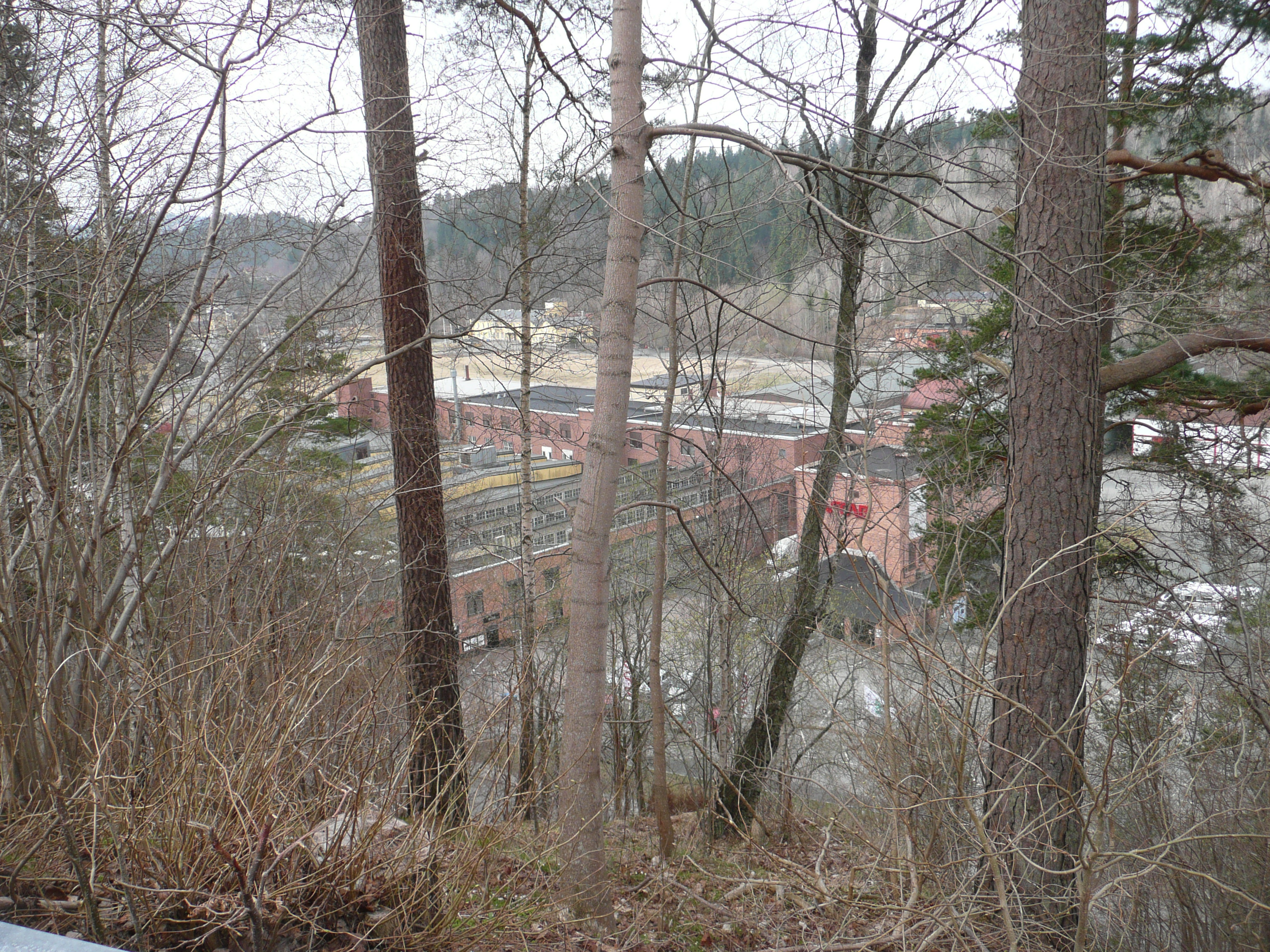 The old factory Norrahammars Bruk, in Norrahammar, Sweden